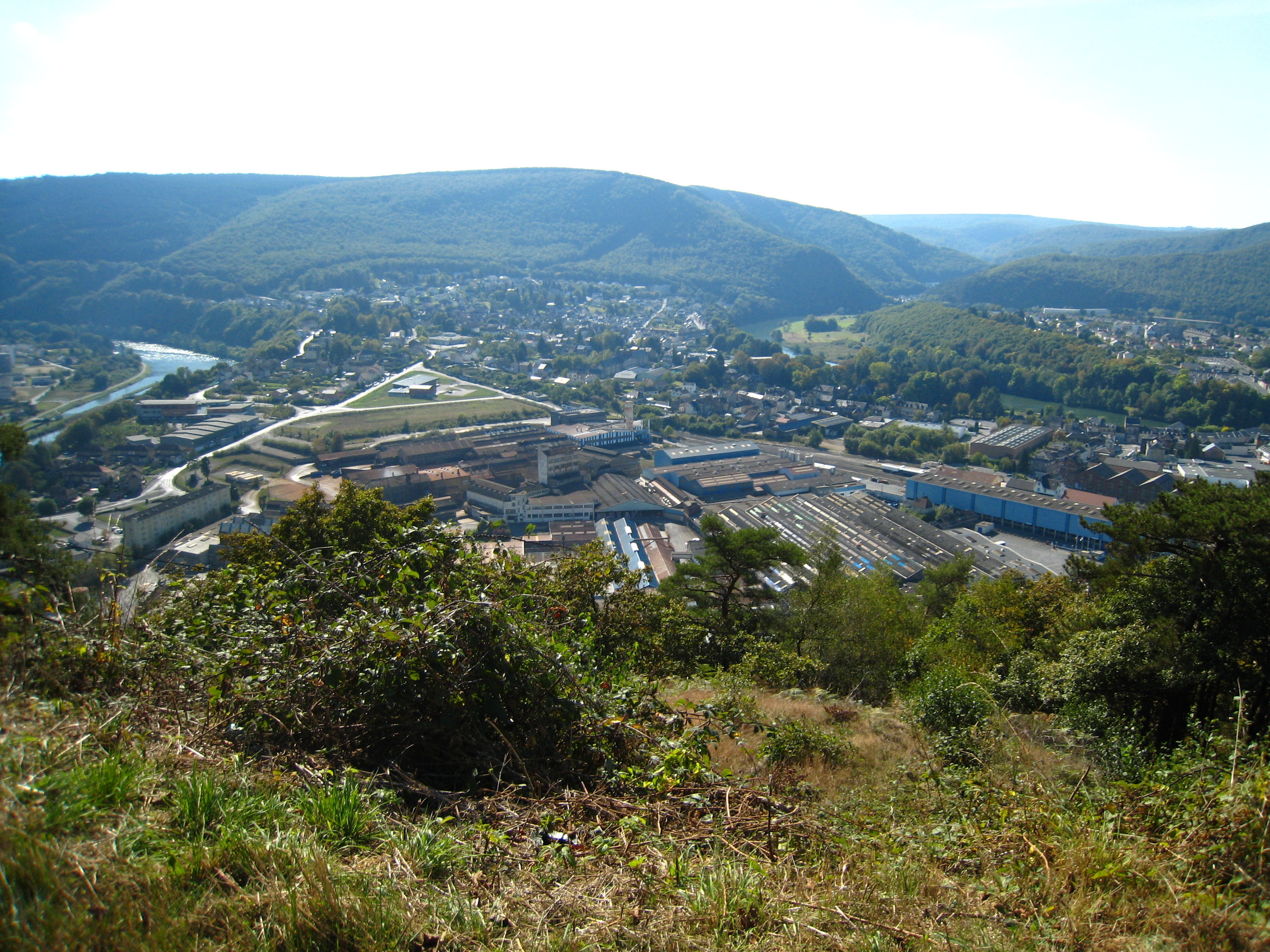 View over Revin taken from the last hairpin on the Cote du Malgre Tout